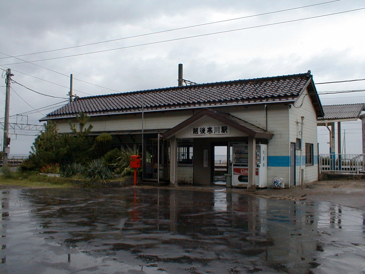 Echigo-Kangawa Station on JR East Uetsu Line, in Murakami city, Niigata Prefecture, Japan